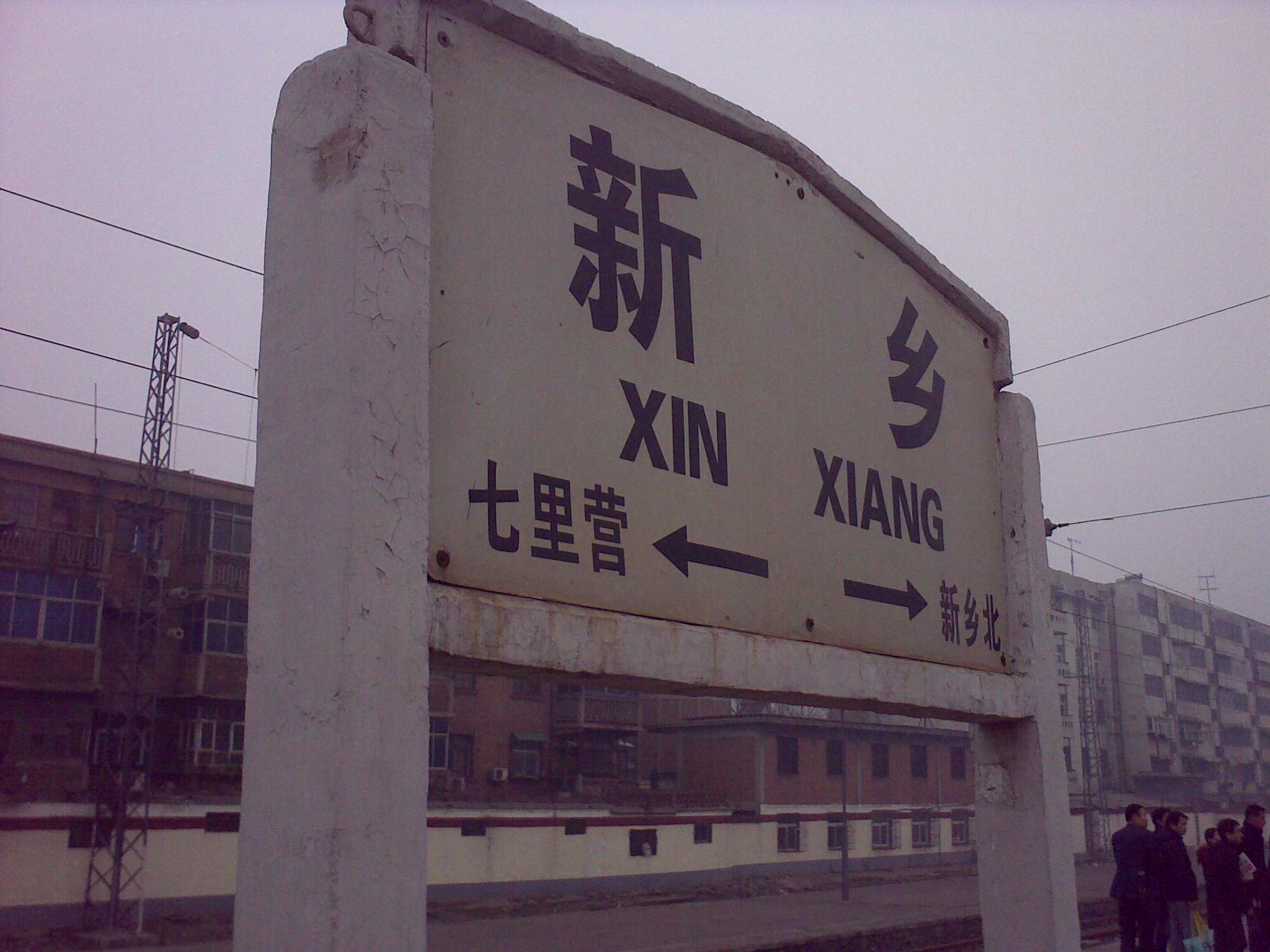 There are more trains going to Beijing from Xinxiang than from Jiaozuo. We took D136 self-powered train. The trip takes 5 hours.